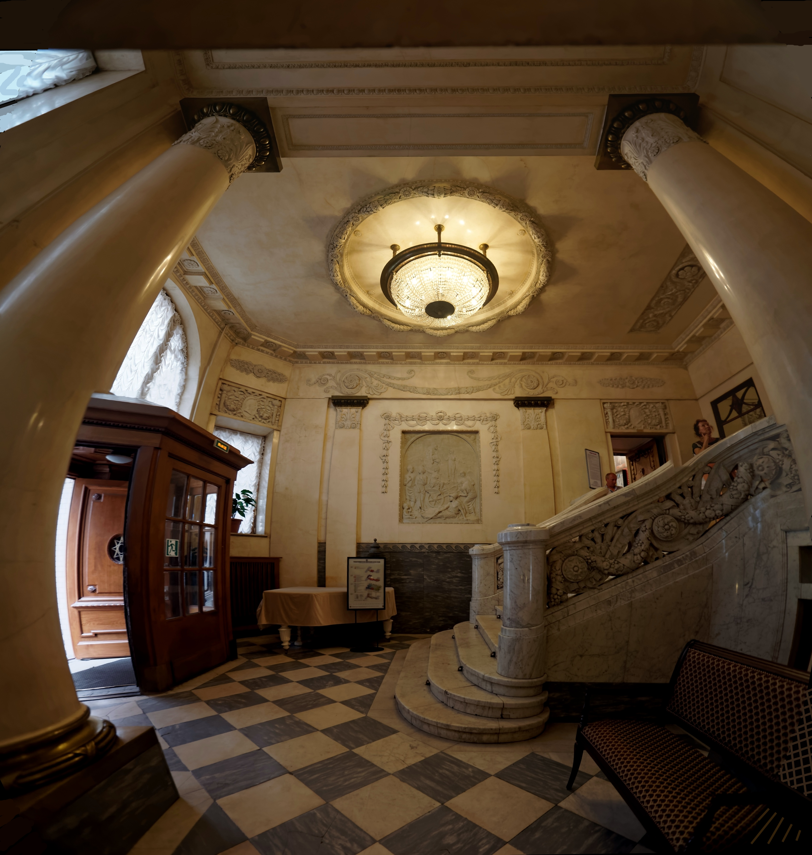 Санкт-Петербург / St Petersburg - Музей политической истории России / State Museum of Political History of Russia - Особня́к Кшеси́нской / Kshesinskaia Mansion 1906 by Alexander von Hohen (Алекса́ндр Ива́нович фон Го́ген) - Northern Art Nouveau